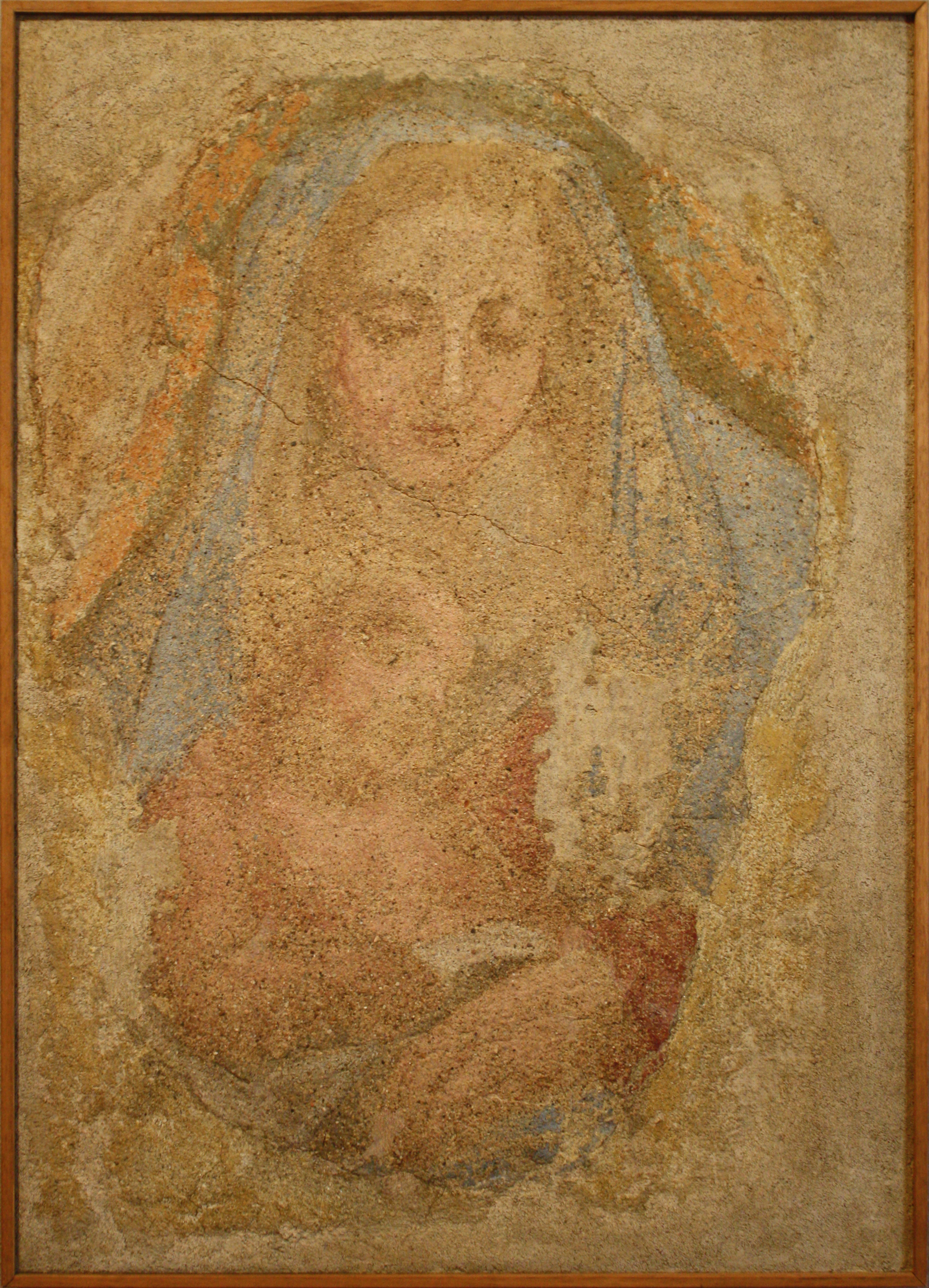 Fresco depicting Virgin Mary with Baby Jesus sleeping, by Biagio Bellotti (created in 1750) preserved in the Civic Art Collections of Palazzo Marliani-Cicogna in Busto Arsizio[1].